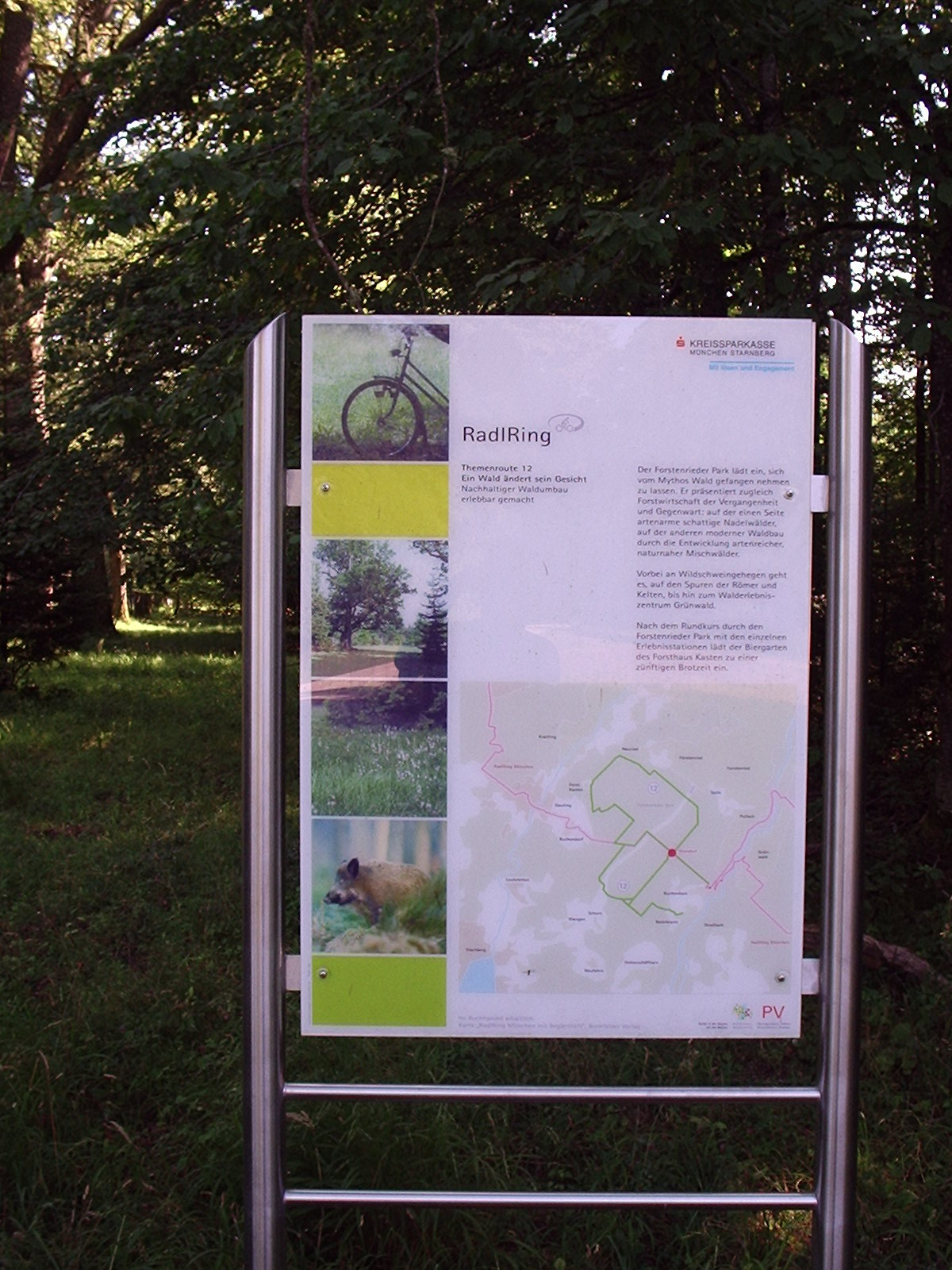 Sign of a biking route in the forest Forstenrieder Park near Munich. The exact location is at the service hut at the road "Ludwig Geräumt".